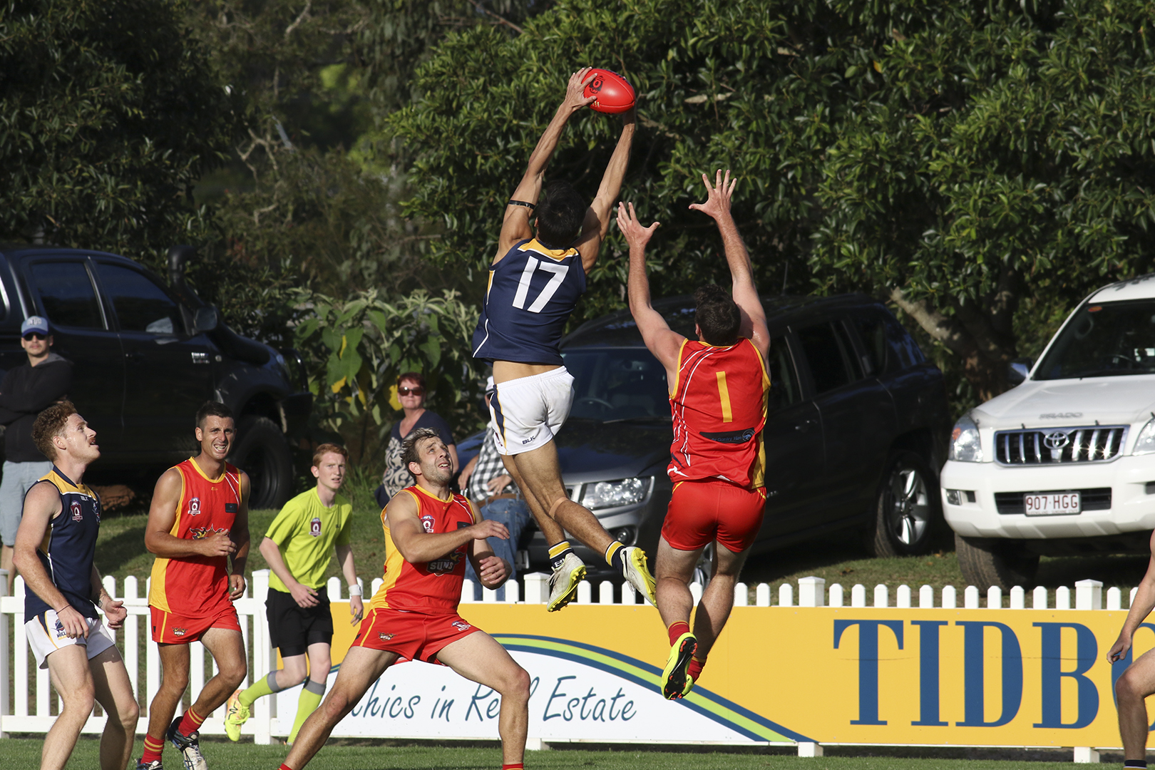 A player takes a leaping mark.